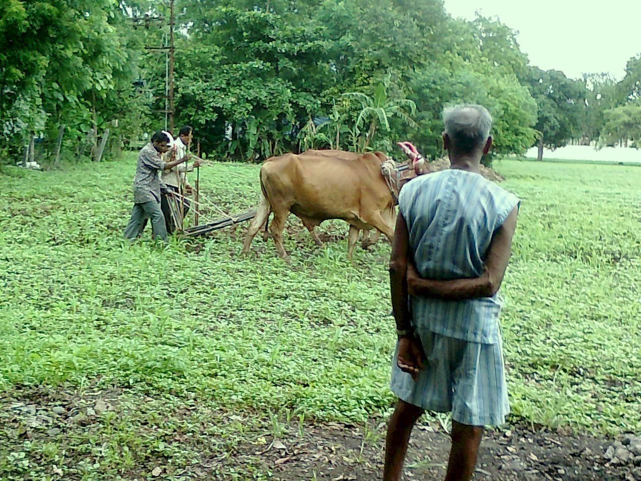 Farmers ploughing sorghum field to remove weeds during monsoon in Chinawal village of Maharashtra, India